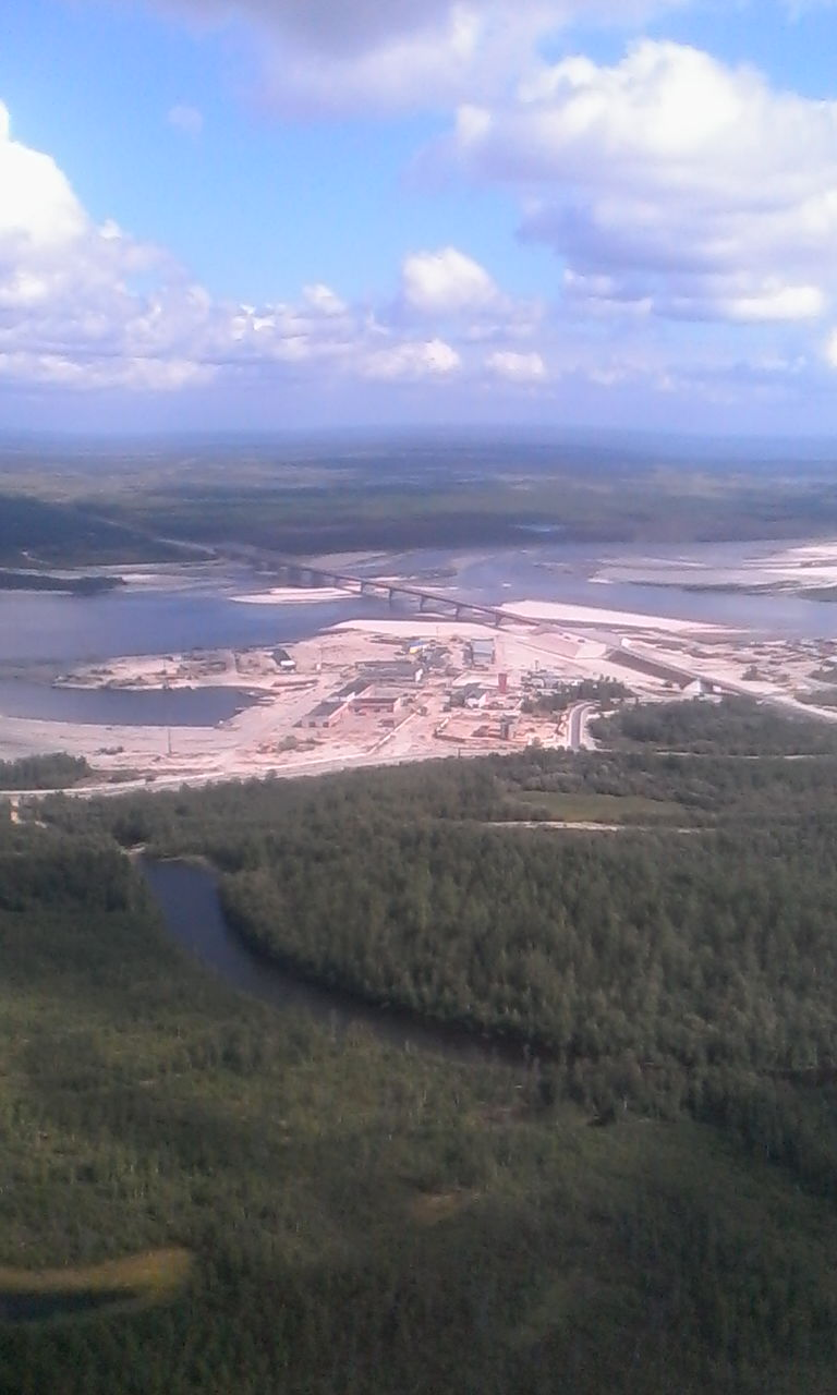 The Nadym (Russian: Нады́м) is a river in Yamalo-Nenets Autonomous Okrug, Russia.